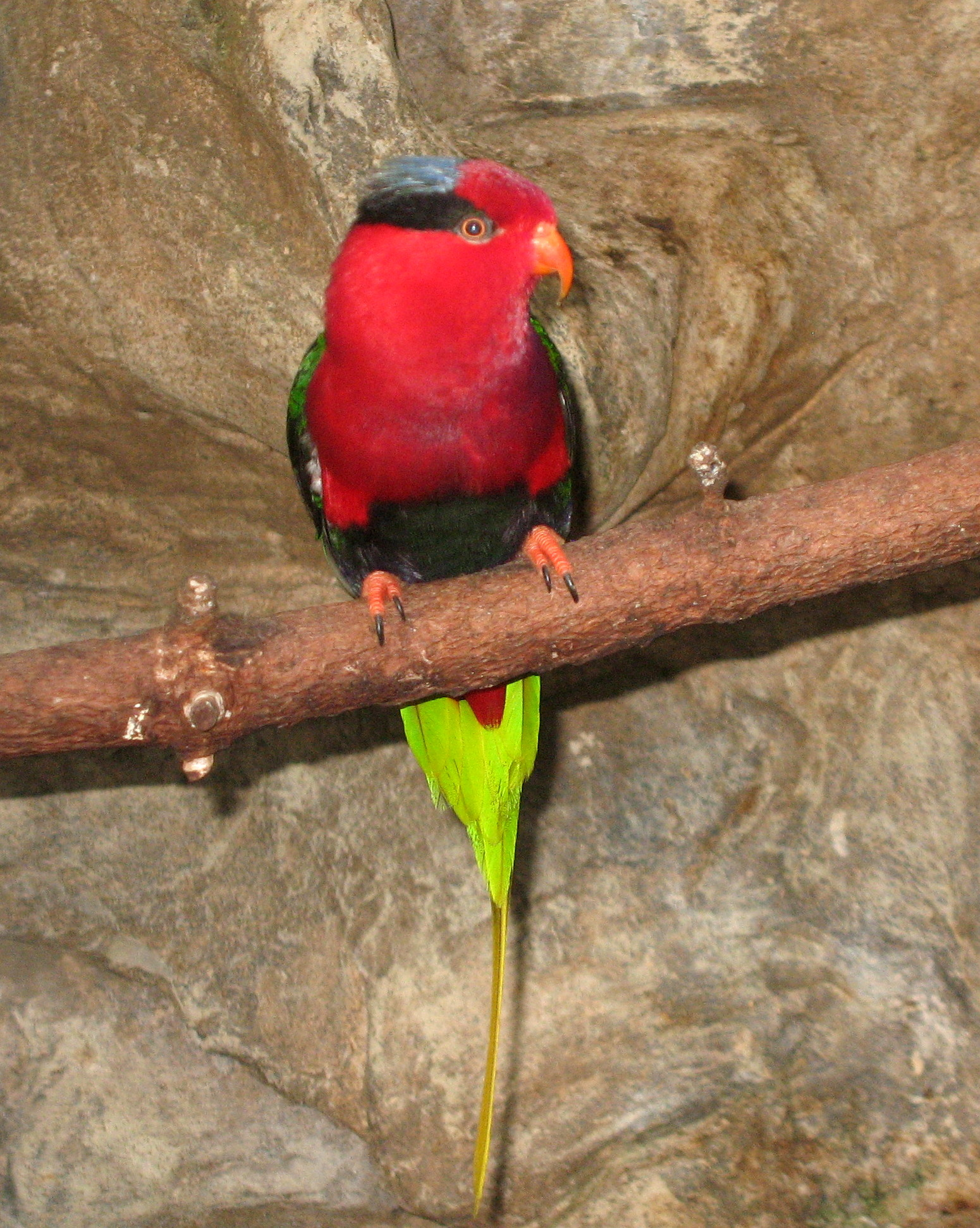 Papuan Lorikeet or Mount-Goliath Lorikeet (Charmosyna papou goliathina) at Loro Parque (Espane, Tenerife)